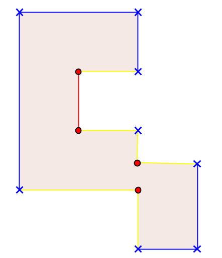 A simply-connected rectilinear polygon. Corners marked with X are convex; corners marked with O are concave. Blue lines are knobs; red lines are antiknobs.